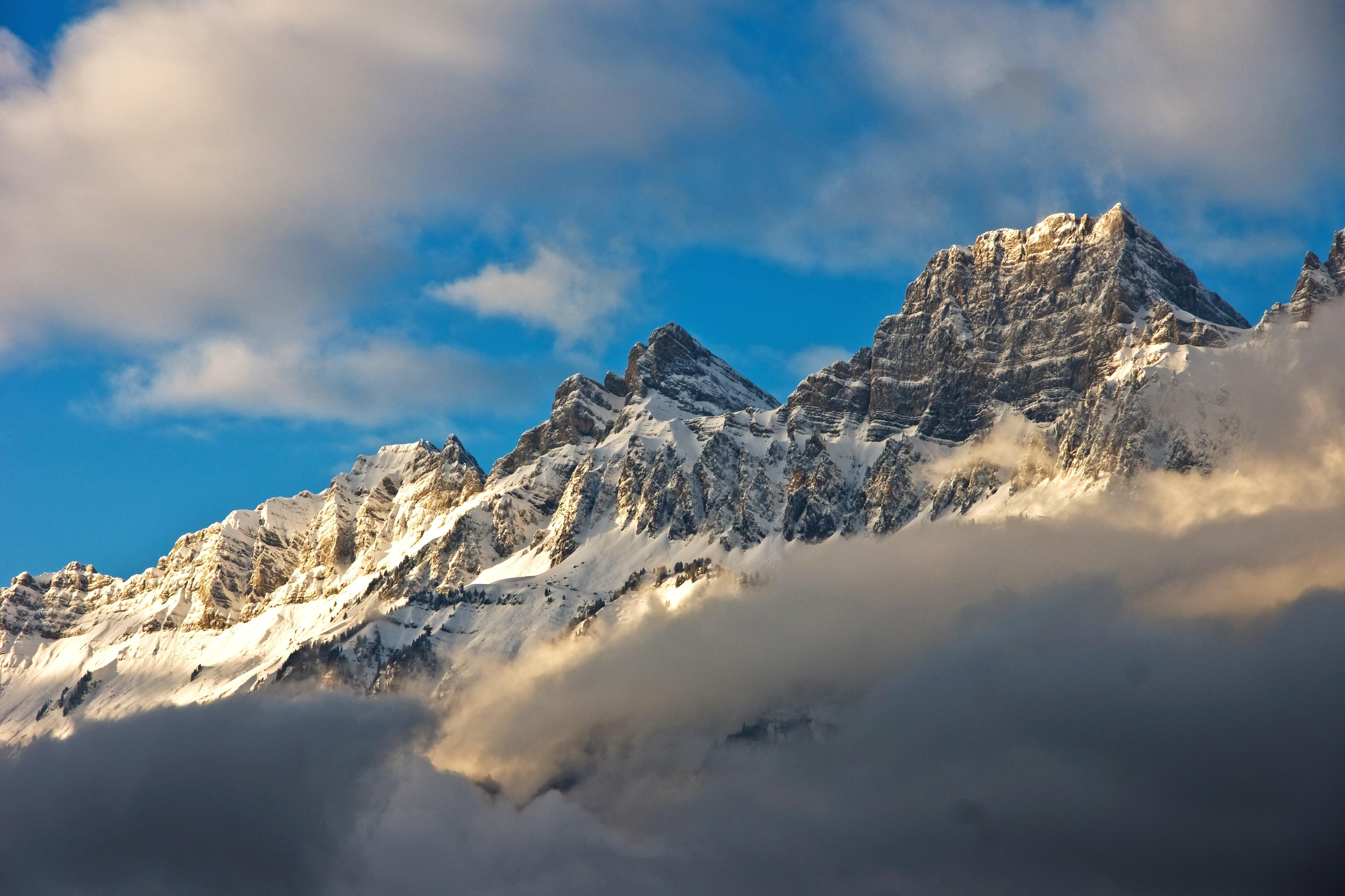 Churfirsten, near Walenstadt